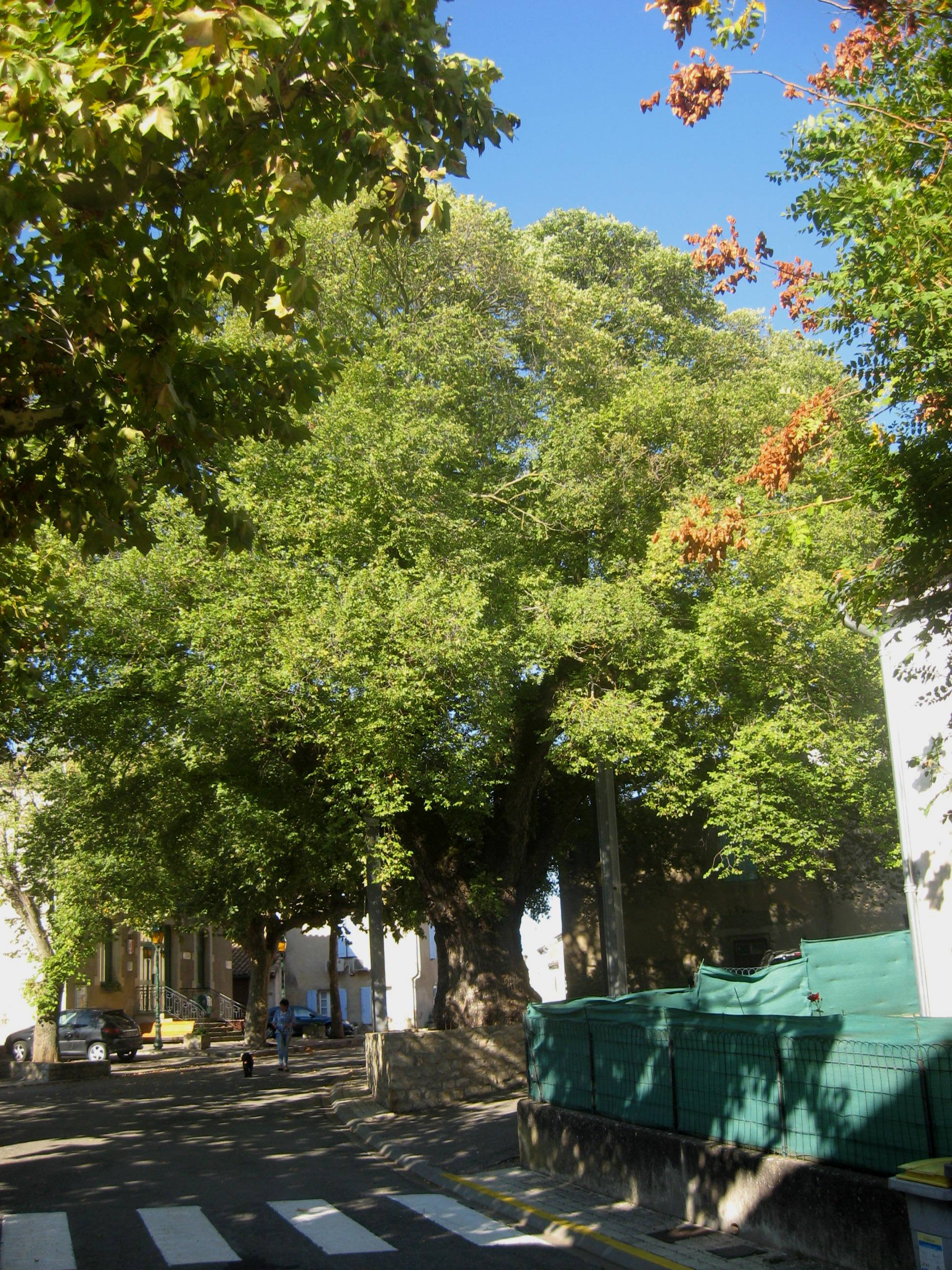 Photograph of the field elm Ulmus minor planted in the village of Villesequelande, near Carcassonne, France, during the 17th century; and known locally as the Ormeau Sully